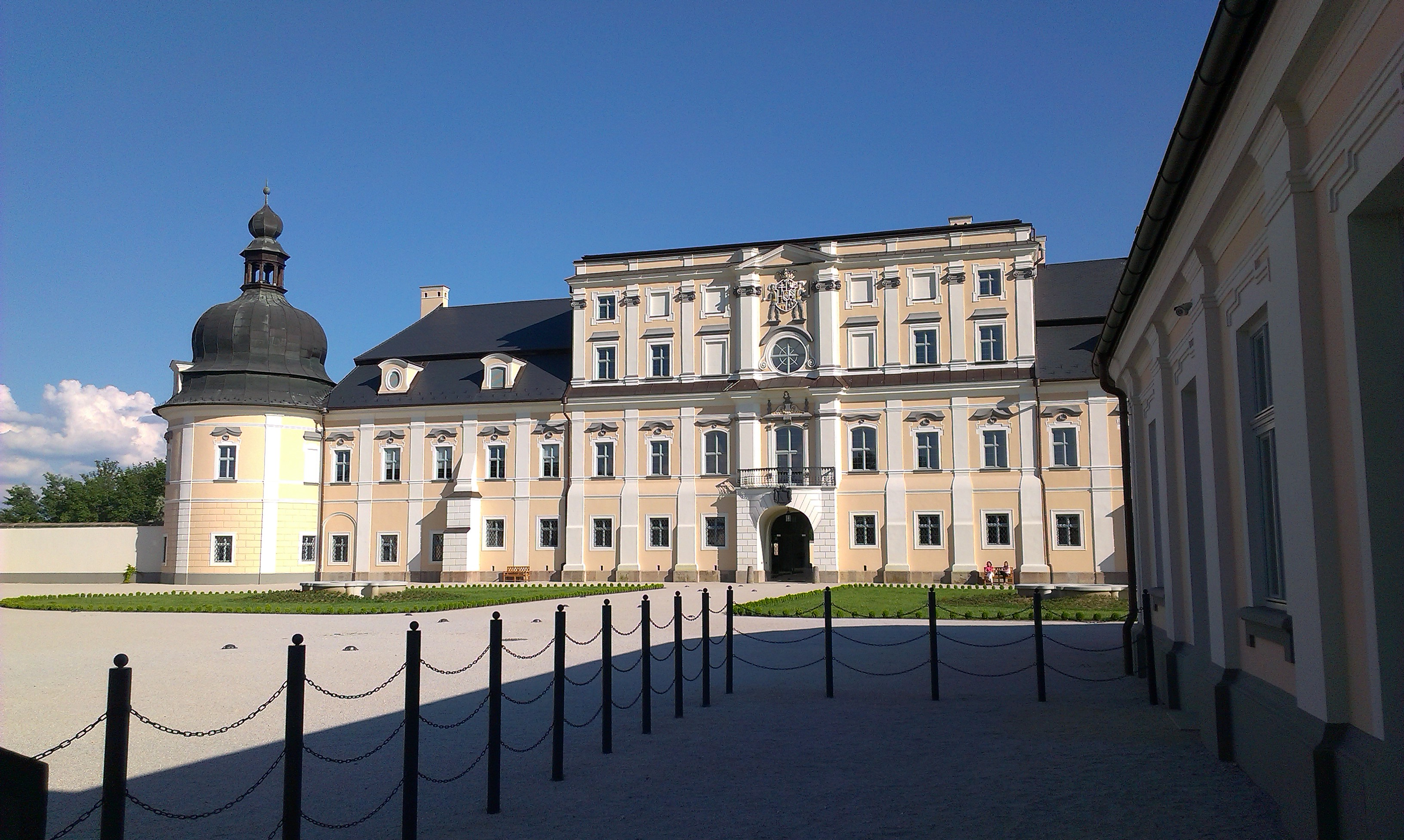 The L'Huillier-Coburg Castle in Edelény, Hungary .